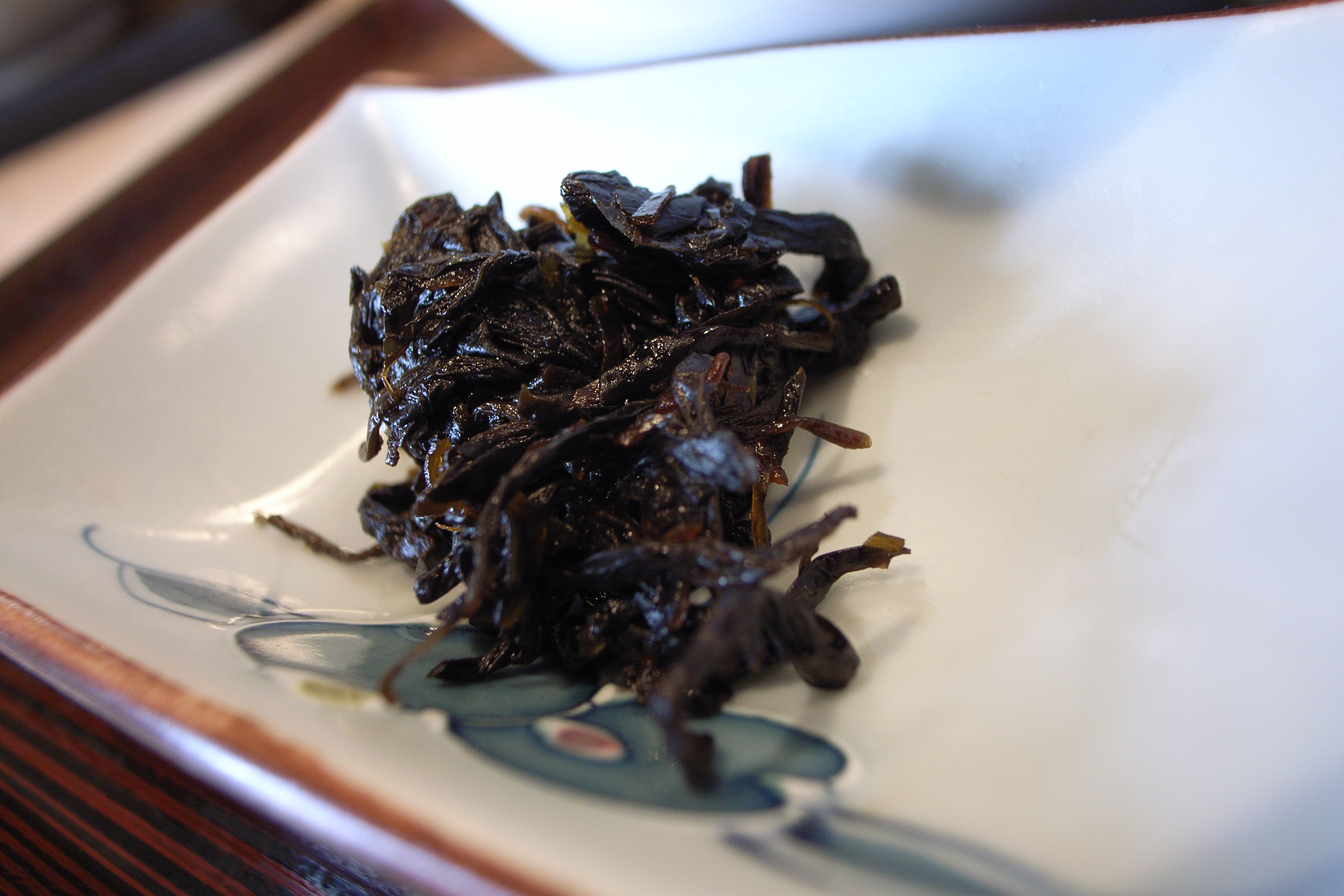 Tsukudani made from kombu in a dish. Photo taken in Japan.Ricoh GR Digital